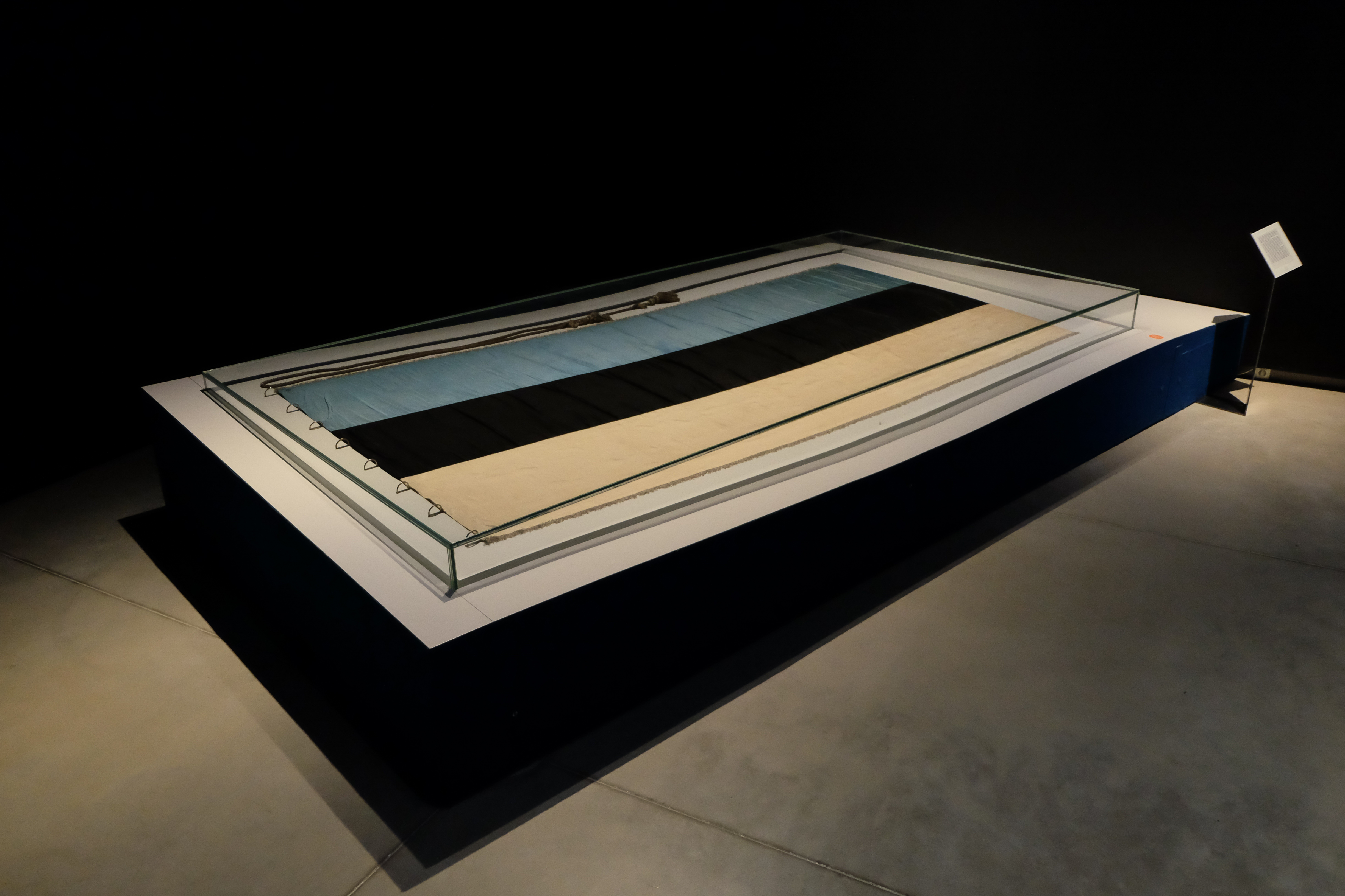 The first flag of Estonia, Estonian National Museum